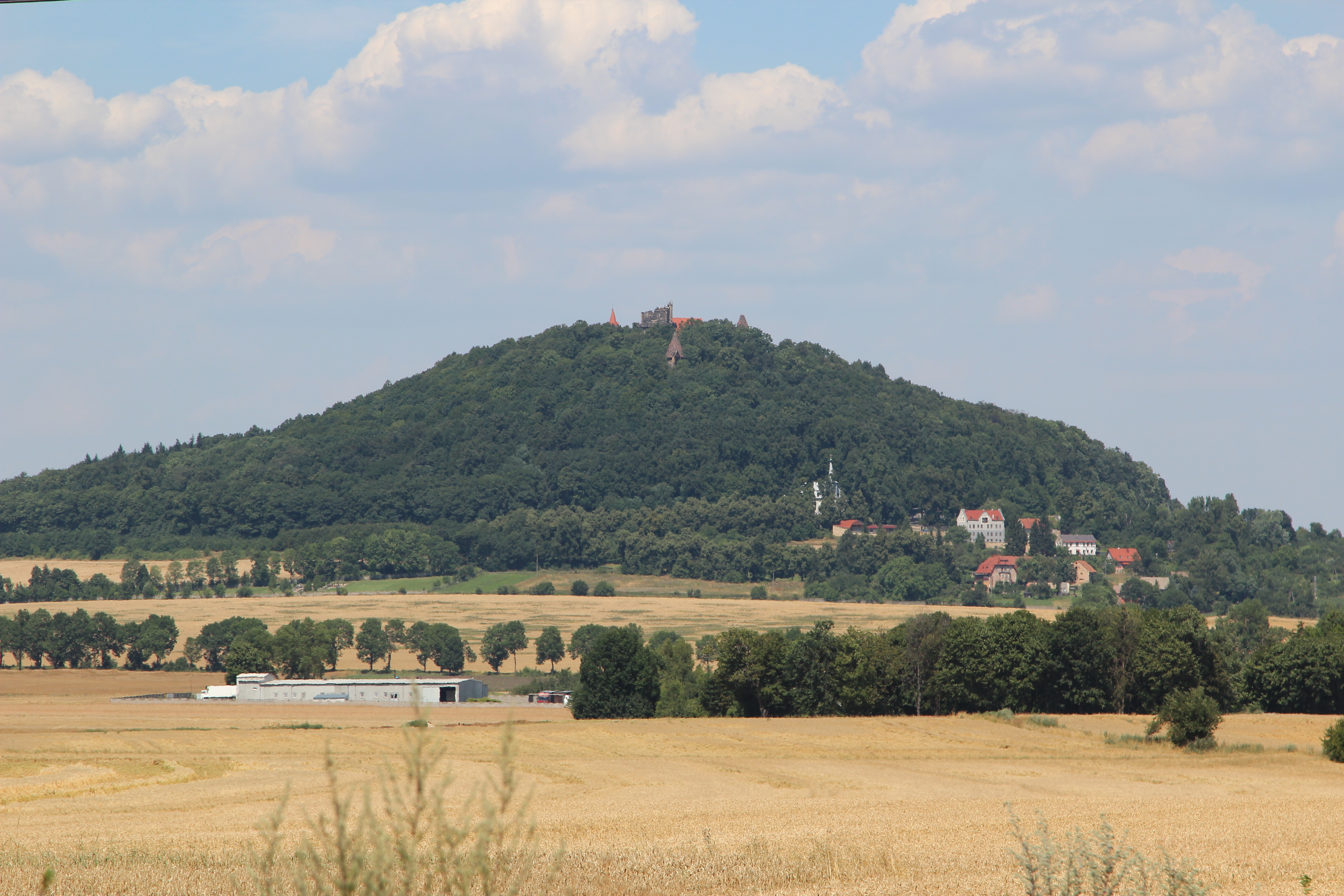 Grodziec castle and Grodziec village from Piast Castles Trail